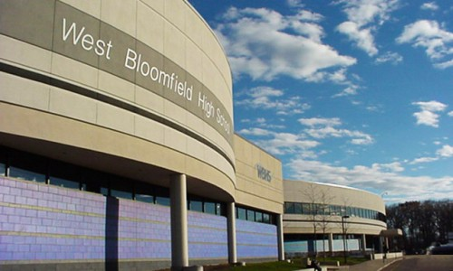 This is an image of the West Bloomfield High School Exterior